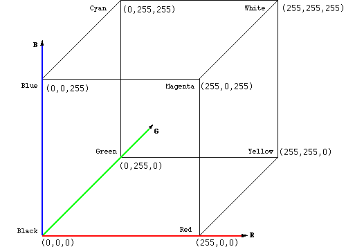 The representation of RGB Color Model in a cube